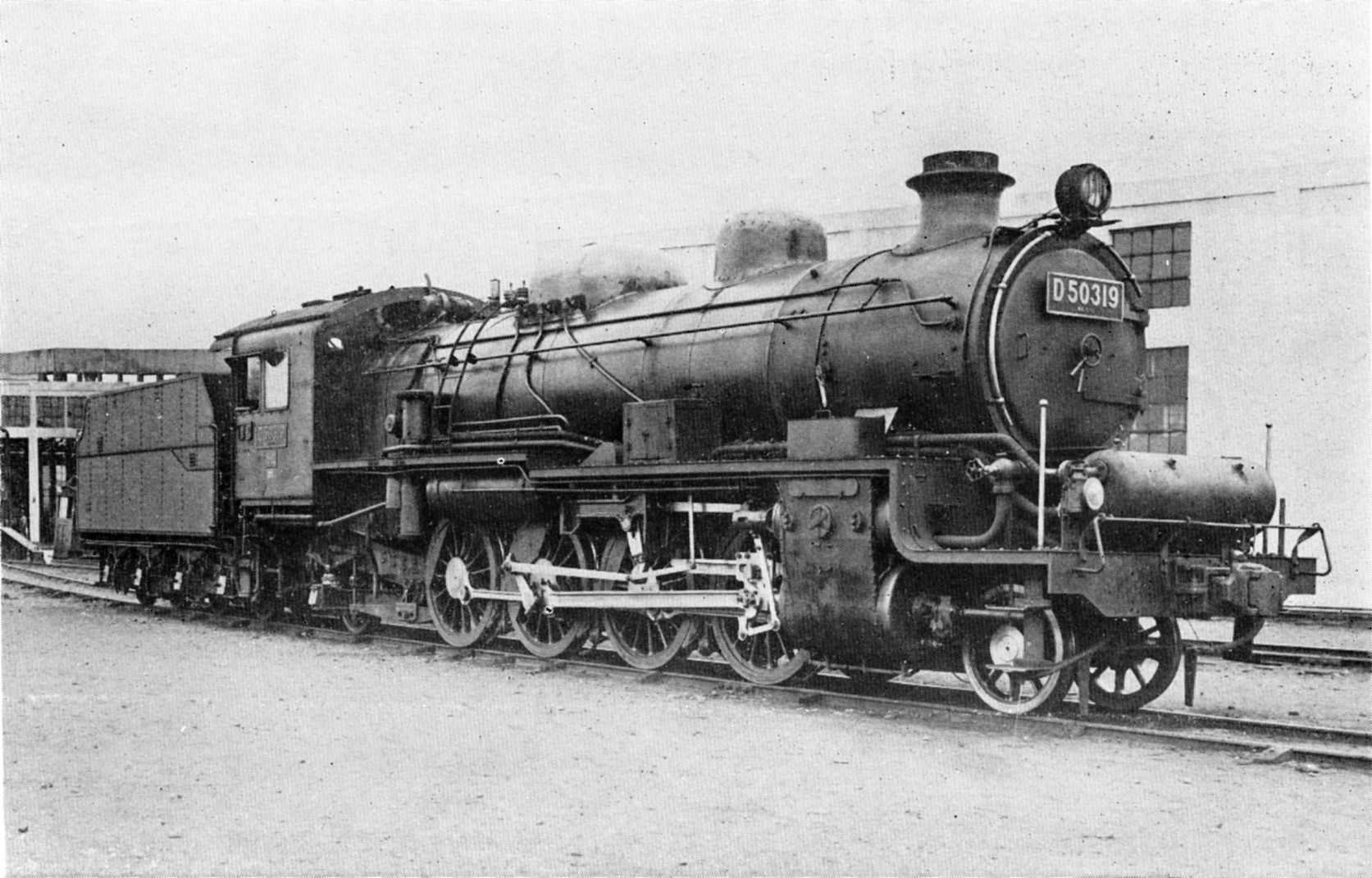 JGR D50 319 steam locomotive in 1935